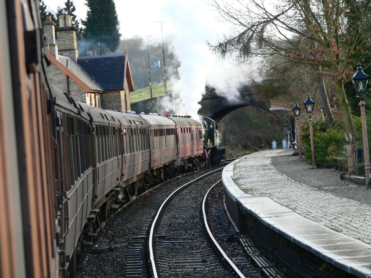 A Severn Valley Railway train hauled by ex-GWR 7800 Manor Class 4-6-0 locomotive 7802 Bradley Manor at Arley Station. This locomotive featured in the film The Chronicles of Narnia: The Lion, the Witch and the Wardrobe.